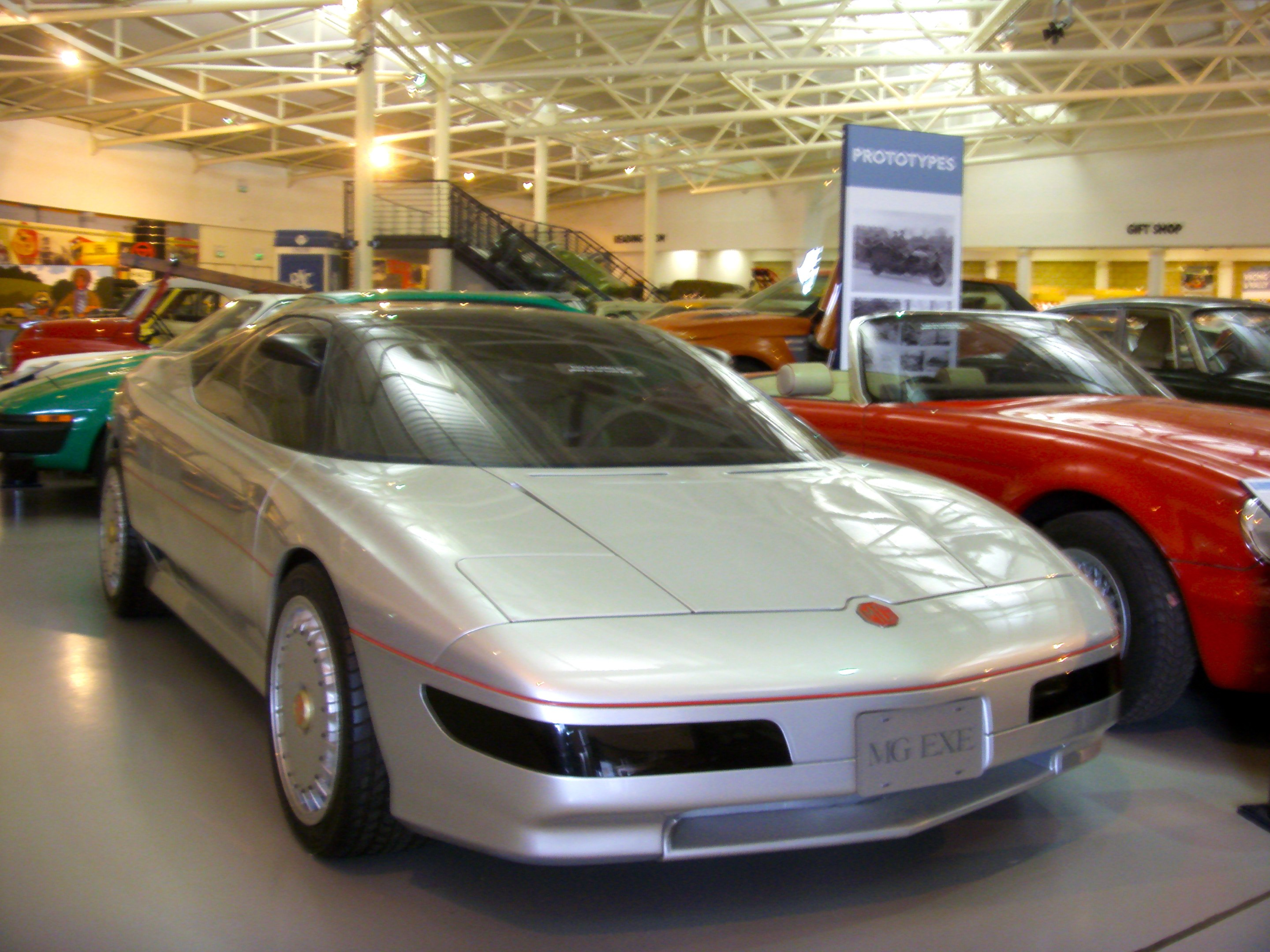 1985 MG EXE Prototype